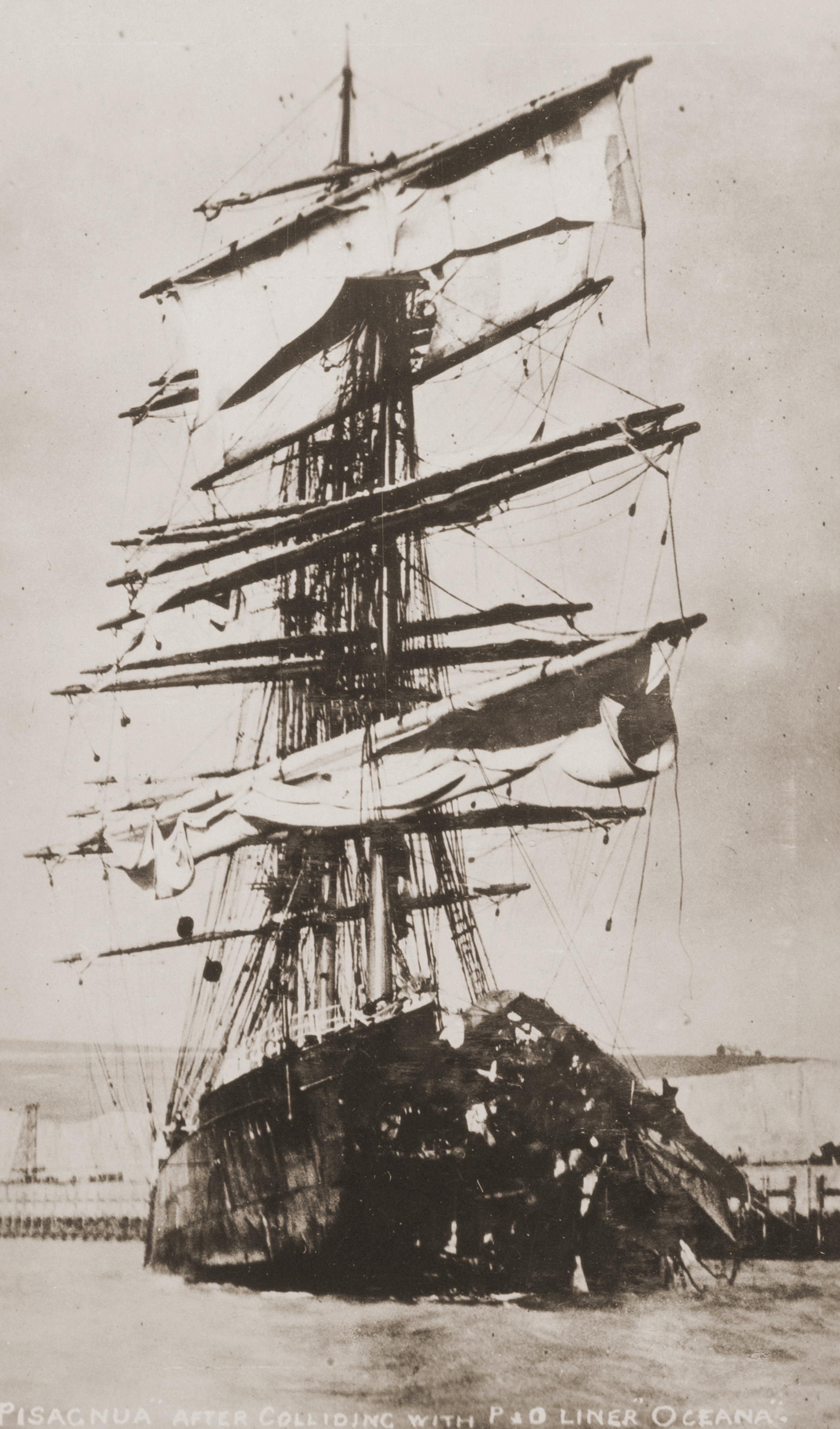 Original caption: “Bow of „Pisagua“ after colliding with the P & O steamer „Oceana“ in the english channel. View of damaged bow of sailing vessel at anchor.”